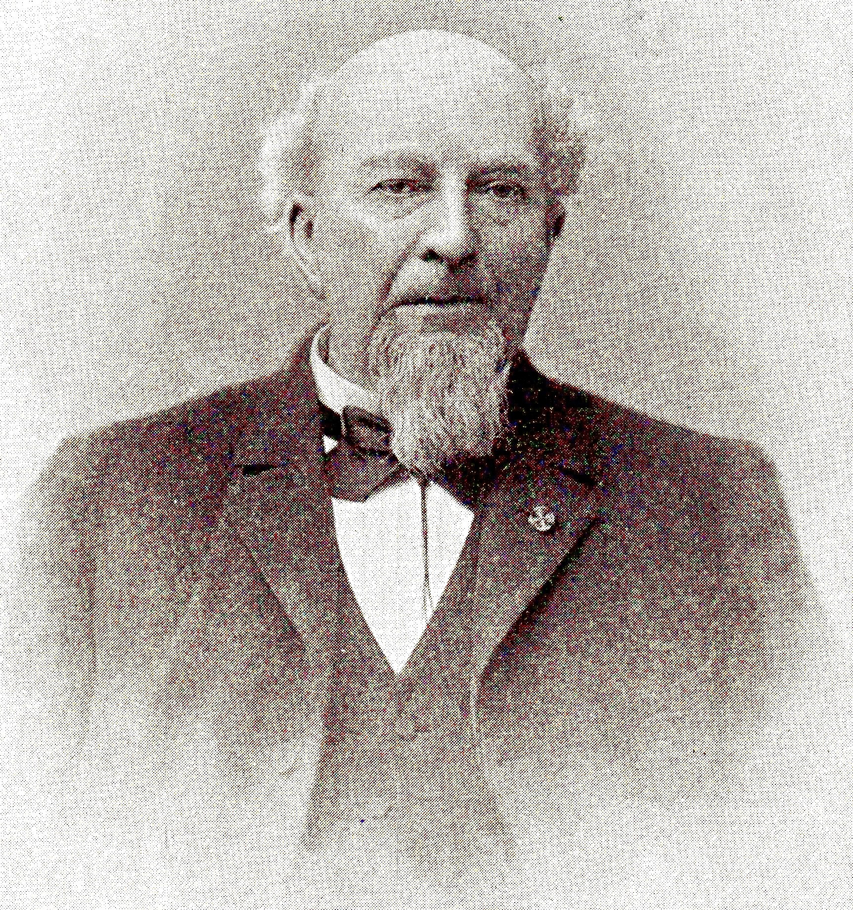 Jhr. Mr. F.J.J. van Eysinga